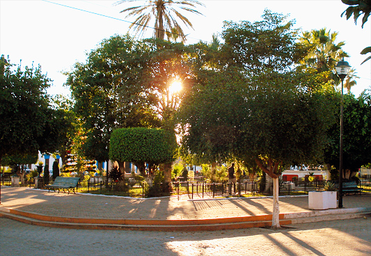 Main Plaza of Mocorito